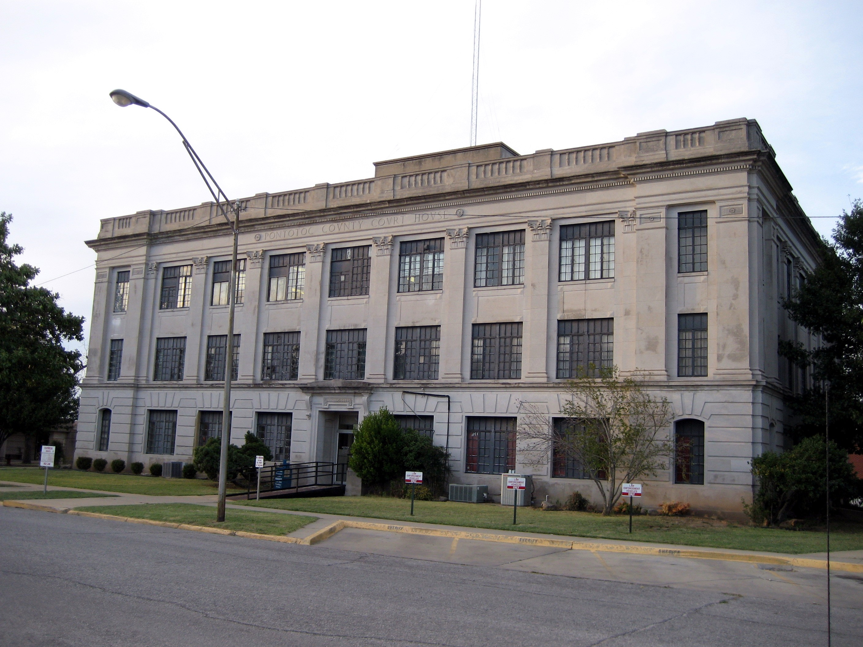 Pontotoc County Court House, 1926, is a Late 19th and 20th Century Revivals architectural style building located at the corner of 12th Street and Broadway Avenue in Ada, Pontotoc County, Oklahoma. The building is listed in the National Register of Historic Places.